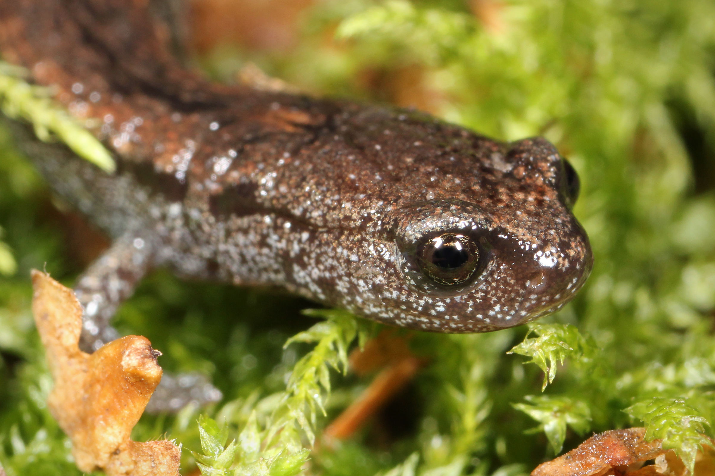 Batrachoseps attenuatus (California Slender Salamander) in Berkeley, California